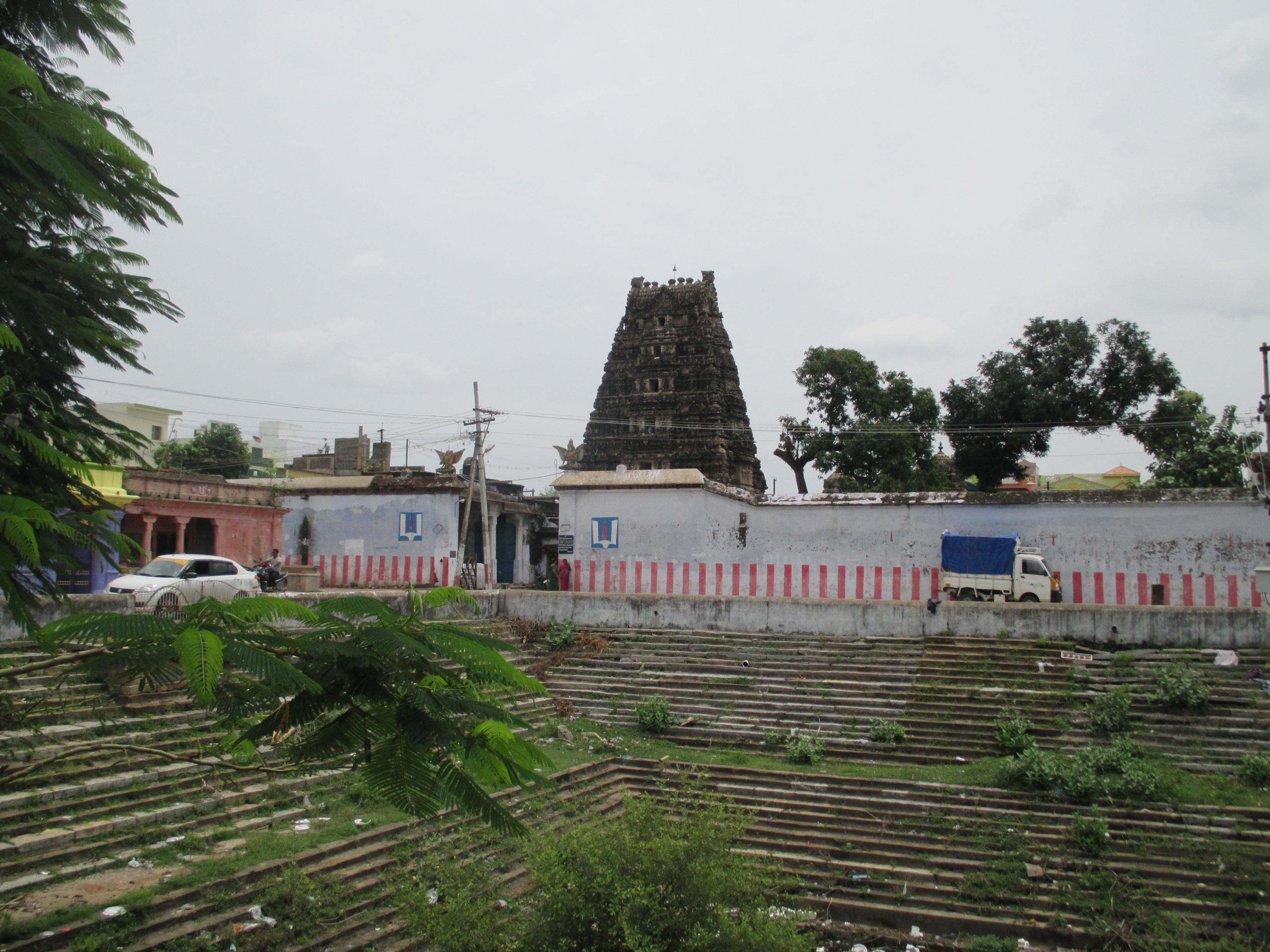 Pavalavannam Temple